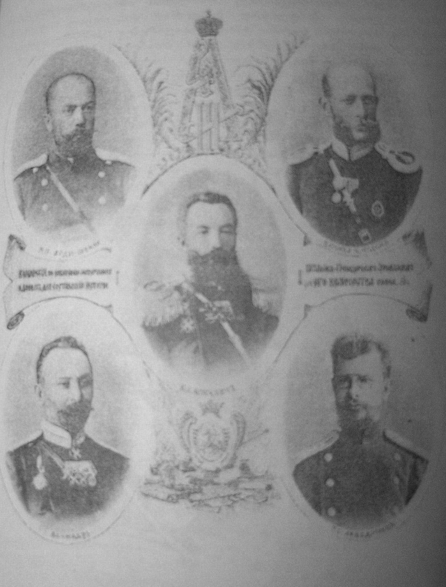 Manglisi Veterans.